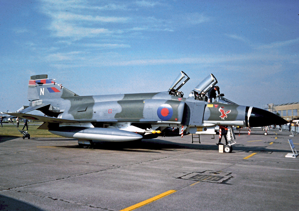 McDonnell F-4M Phantom FGR.2 of 23 Squadron RAF exhibited at RAF Finningley in 1977